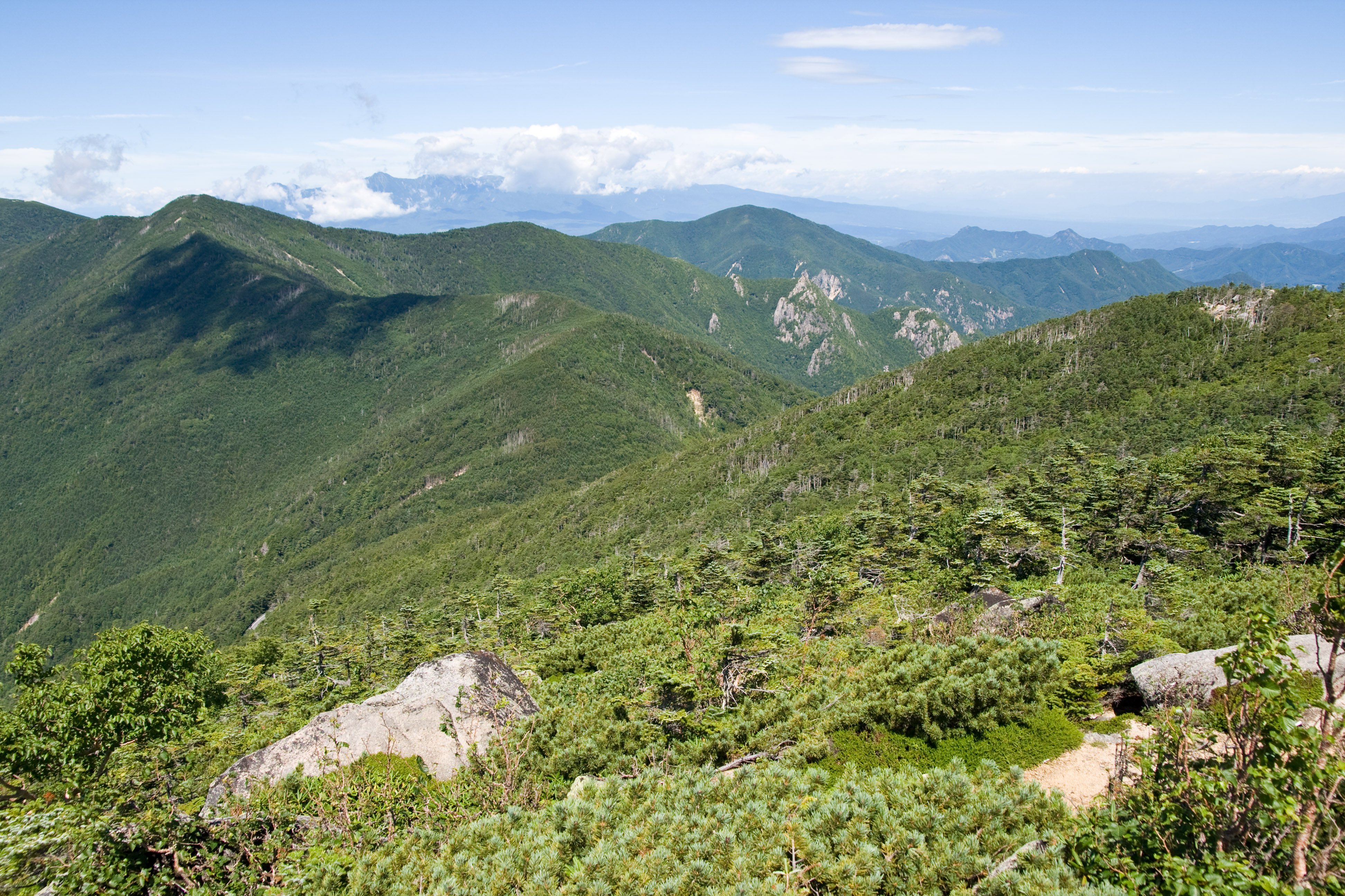 Odarumi Pass as seen from Mt.Kitaokusenjodake, Okuchichibu Mountains, Honshu, Japan.